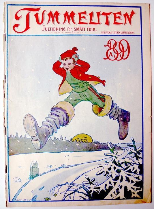 Front cover of Tummeliten published 1899. Tummeliten was a Swedish Christmas magazine for children published yearly 1895-1934.